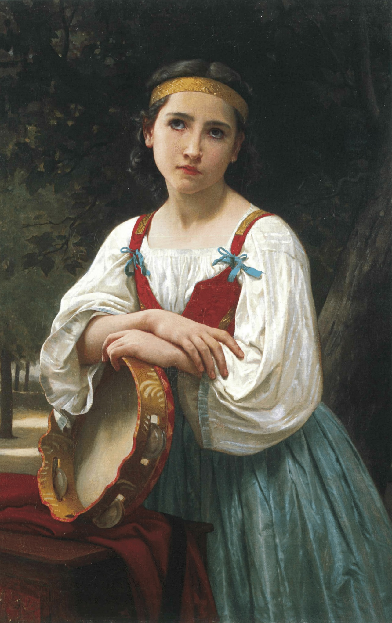 Catalogue number: 1867/05 In 2010 the painting was owned by a private collector.